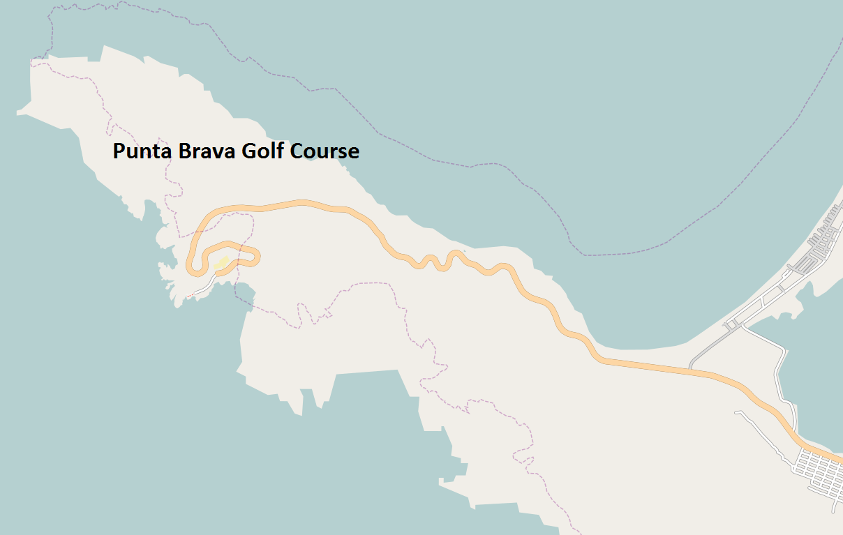 Map of Punta Brava and the Punta Brava Golf Club — Municipality of Ensenada—Municipio de Ensenada. Located in Baja California state, northern Baja California Peninsula, Mexico.